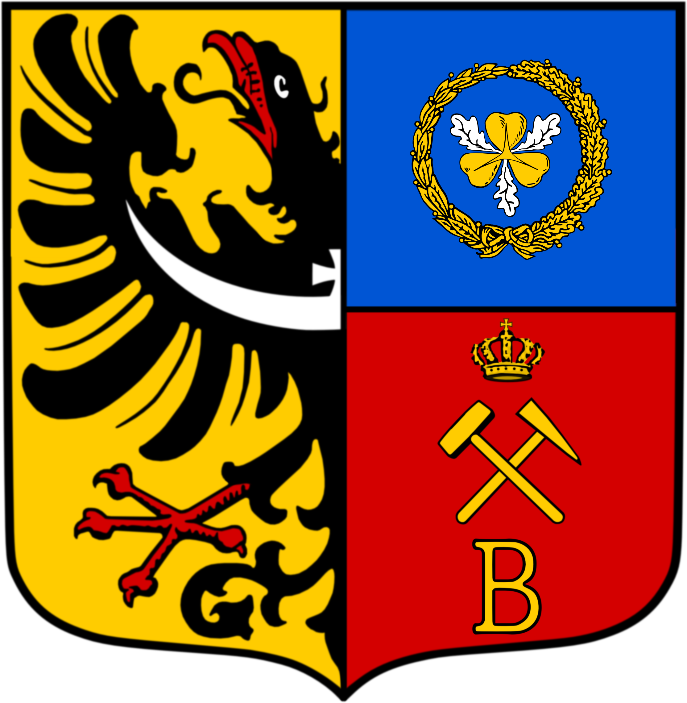 Coat of arms of the former municipality of Bismarckhütte